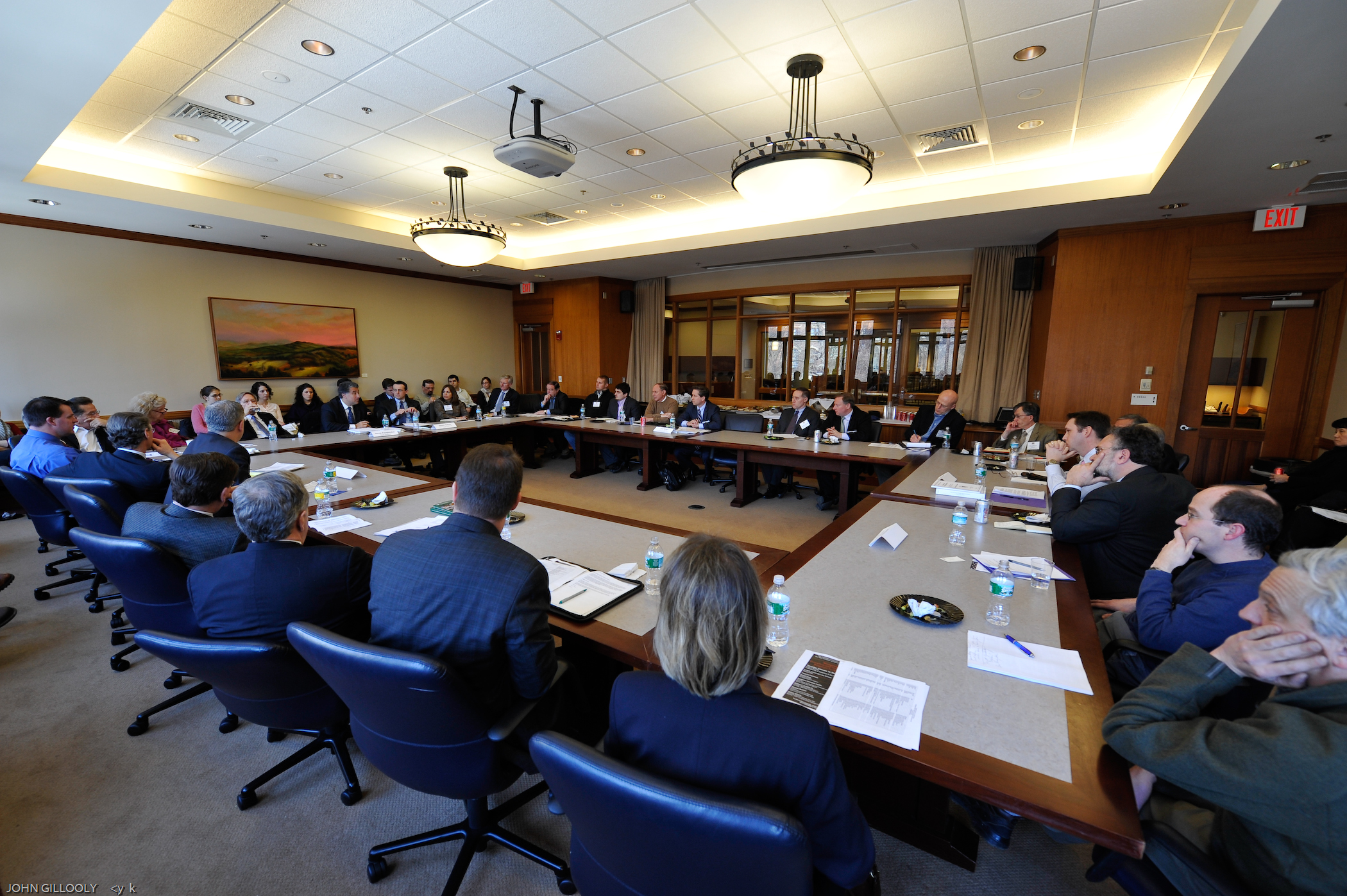 Roundtable on "Managing the State's Budget - Hard Choices in an Economic Crisis" hosted by the Rappaport Center on January 30, 2009